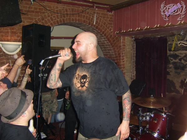 Murphy's Law at The Dock in Staten Island 2007